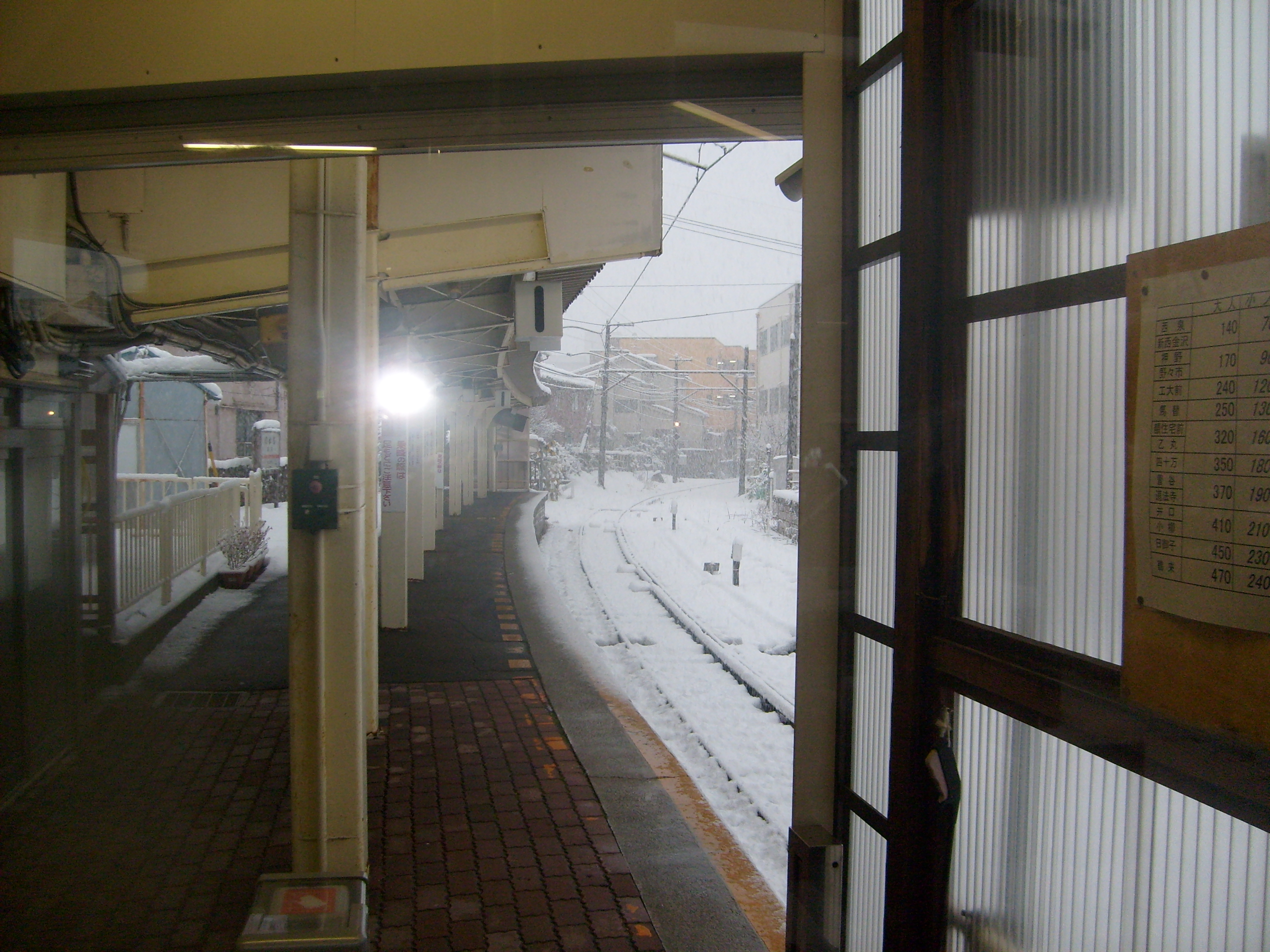 View along the only operational platform at Nomachi station on the Ishikawa line of the Hokuriku railroad in the snow. Photograph taken in December 2014.